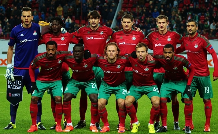 FC Lokomotiv Moscow 2015